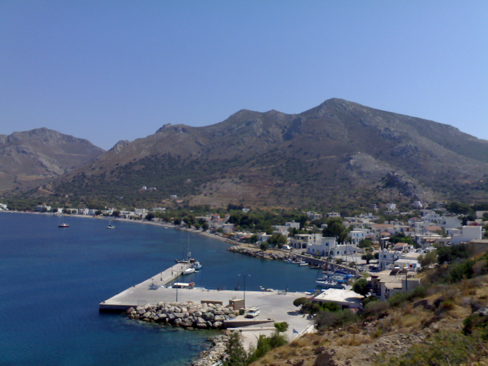 View of Livadhia village in Tilos island, Greece.